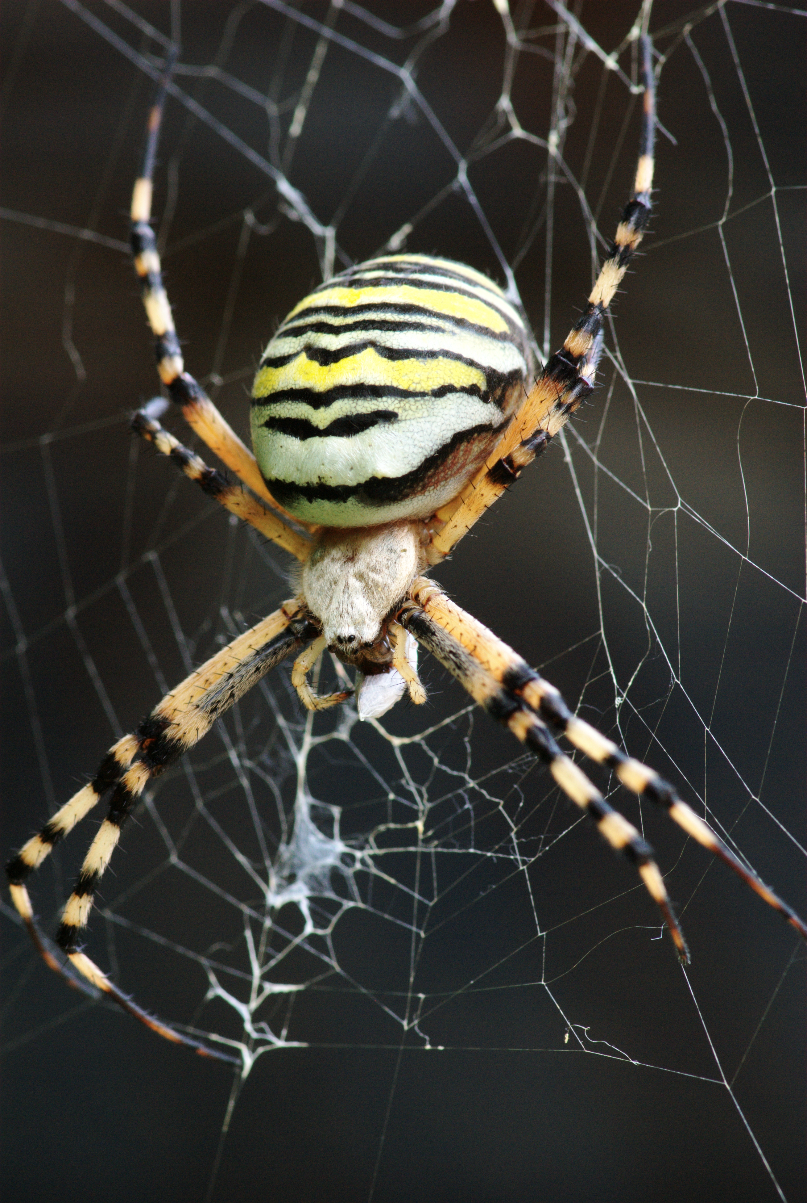 Close view of a female spider Argiope bruennichi (wasp spider), taken at St-Pierre-le-Vieux, in the Marais Poitevin, in Vendée, France.